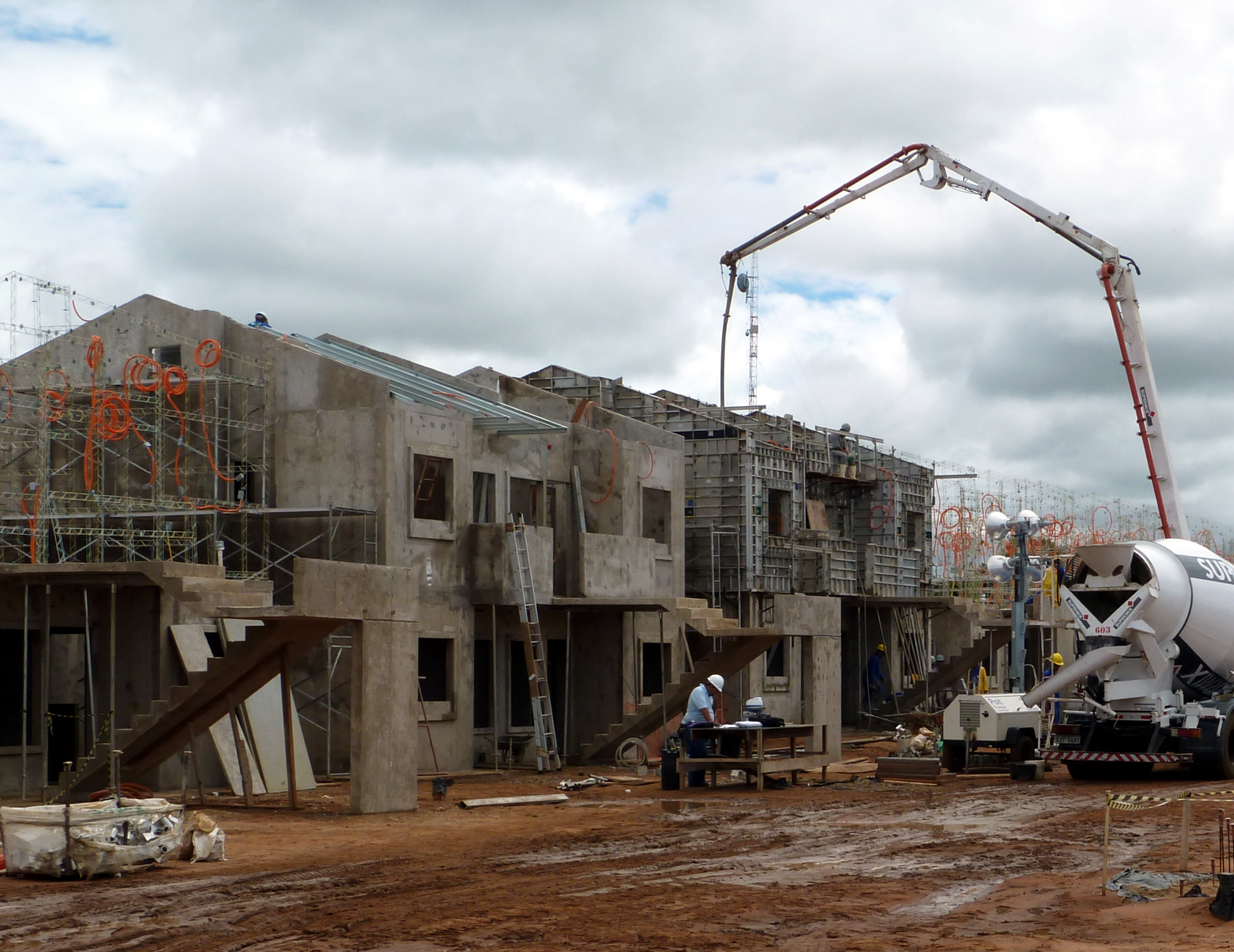 Construction of social housing in Campo Grande, Brazil using aluminum concrete formwork.